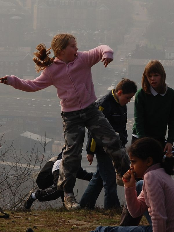 The stone thrower.